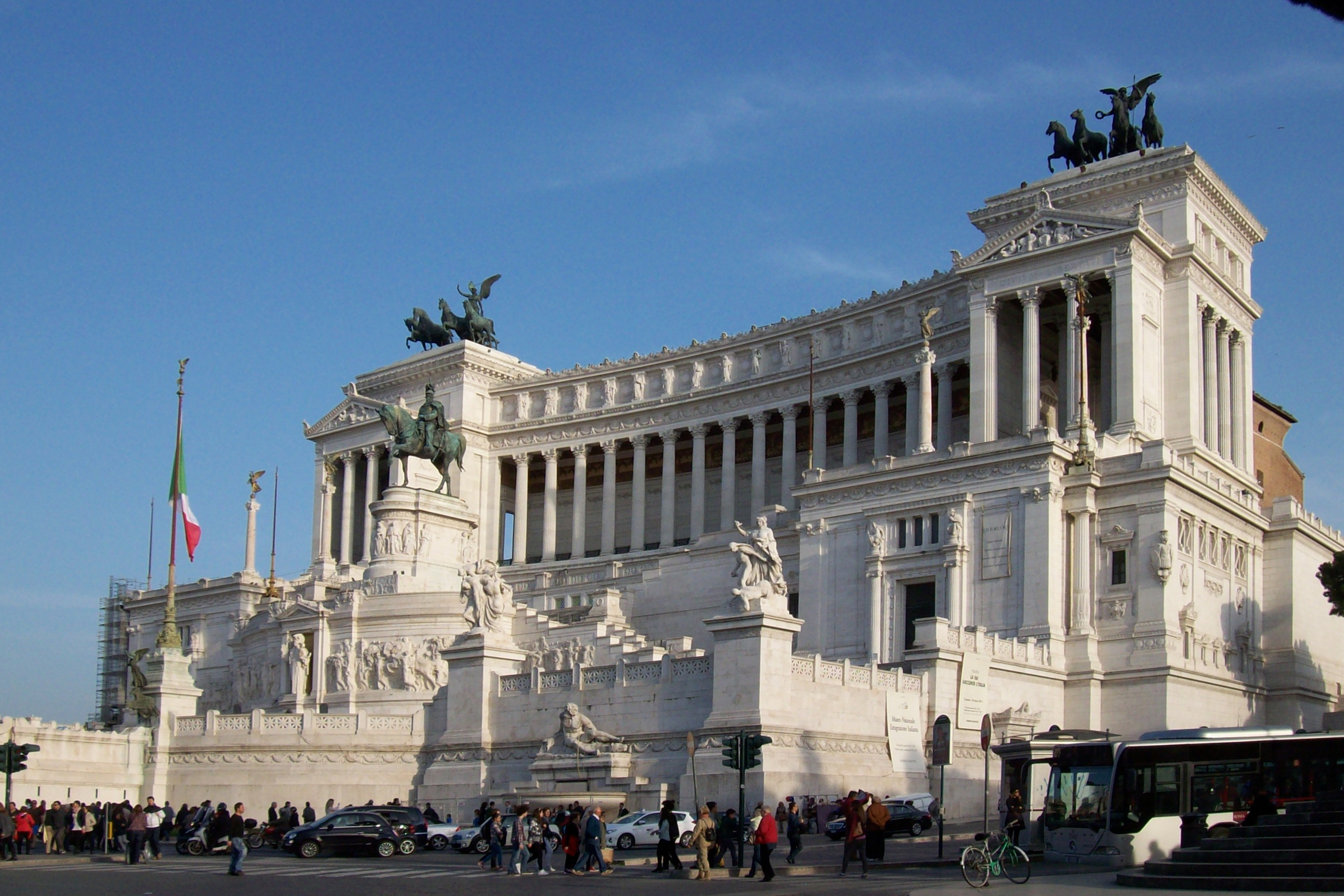 Monument to King Vittorio Emanuele II in Rome, Italy